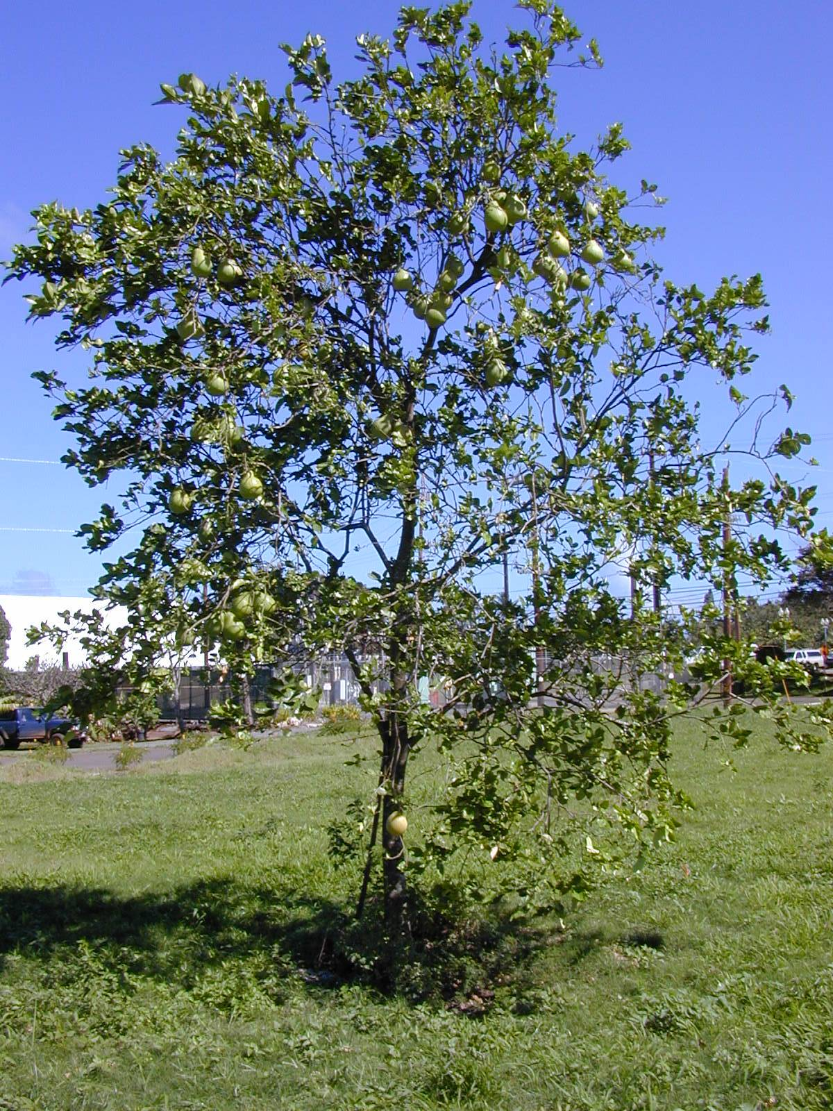 Citrus maxima (habit). Location: Maui, Haiku